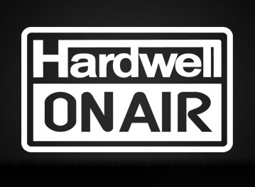 hardwellonair